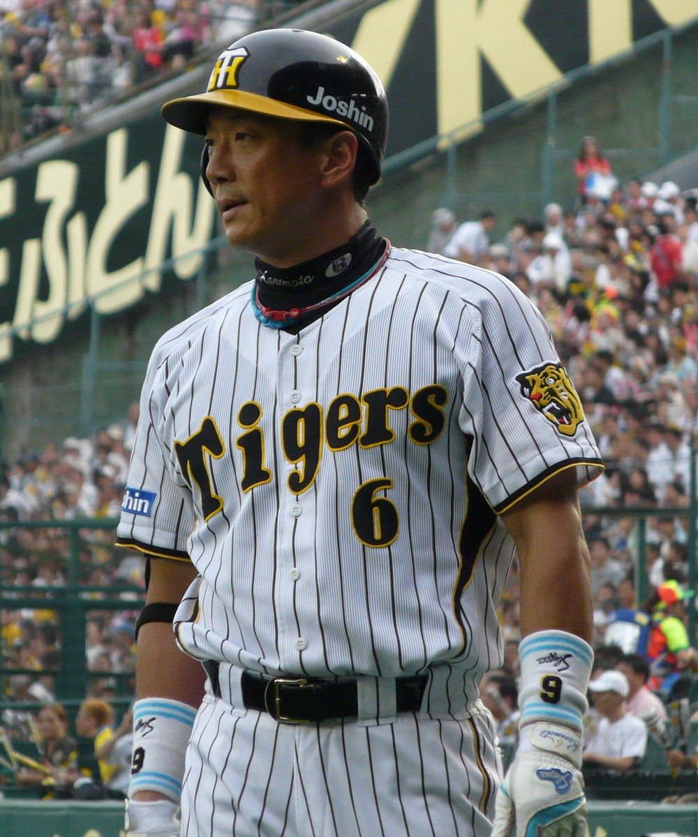 Tomoaki Kanemoto, outfielder of the Hanshin Tigers, at Hanshin Koshien Stadium.